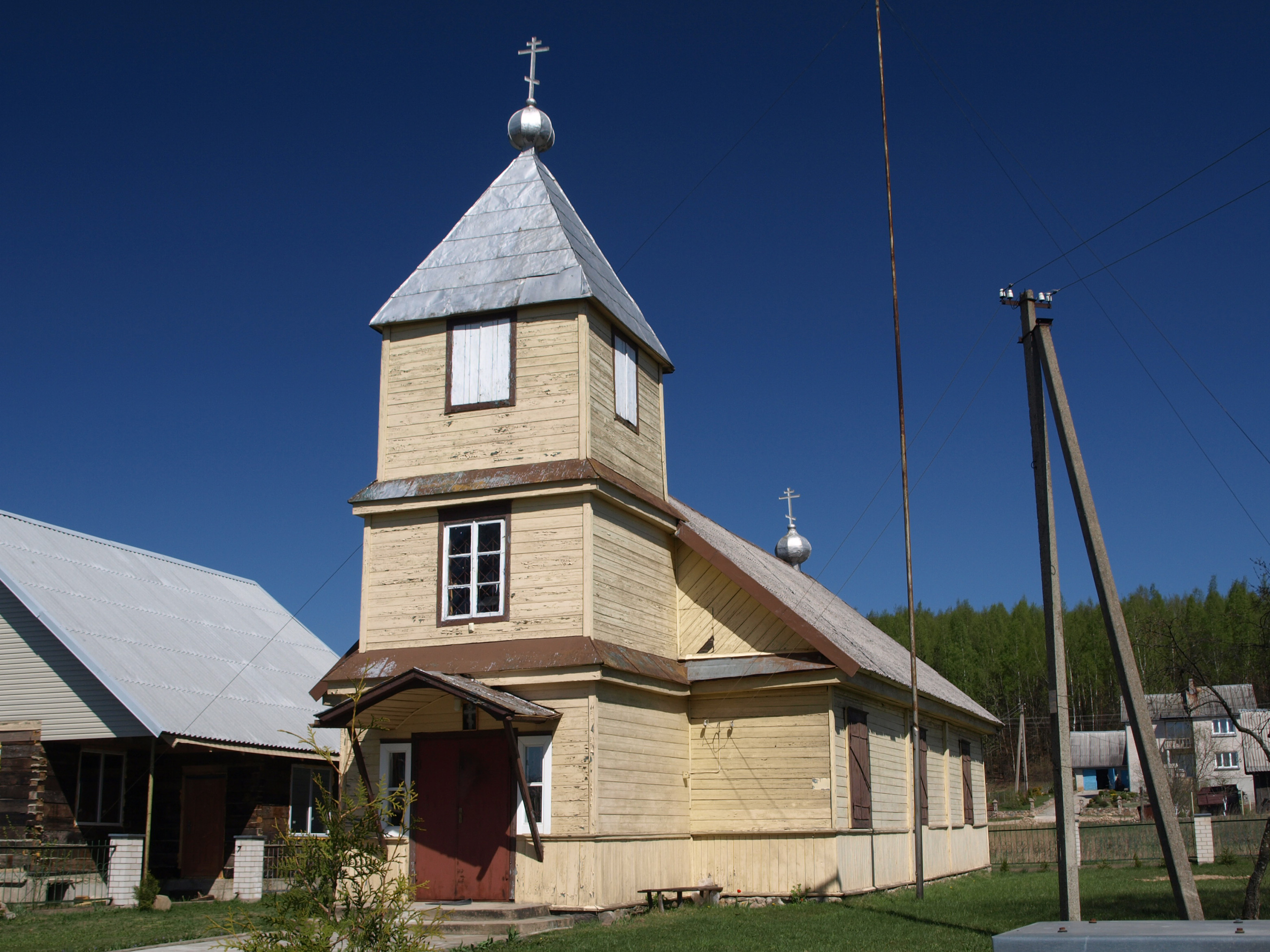 Švenčionys Old Believers church, Švenčionys, Lithuania